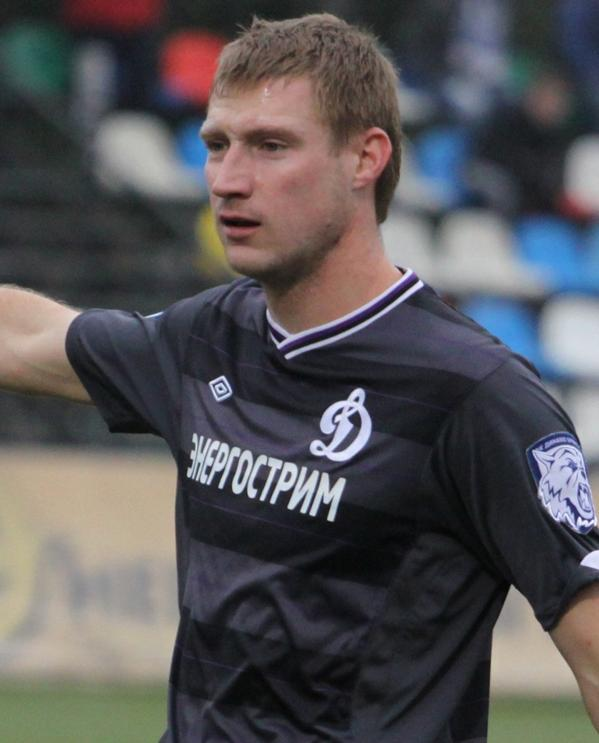 Aleksandr Dimidko with FC Dynamo Bryansk.